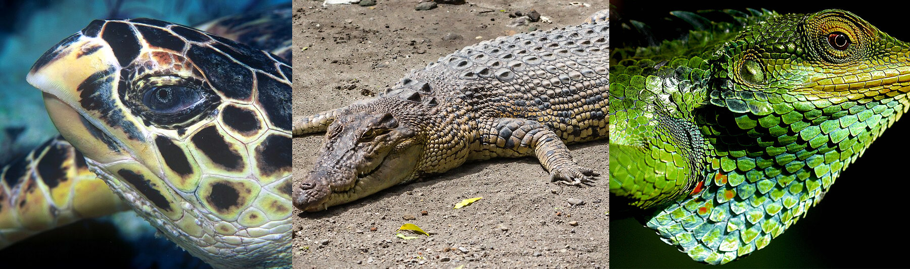 File:Hawksbill_turtle_doeppne-081.jpg File:Saltwater_crocodile_(Crocodylus_porosus),_Gembira_Loka_Zoo,_2015-03-15_01.jpg File:Large_Scaled_Forest_Lizard.jpg